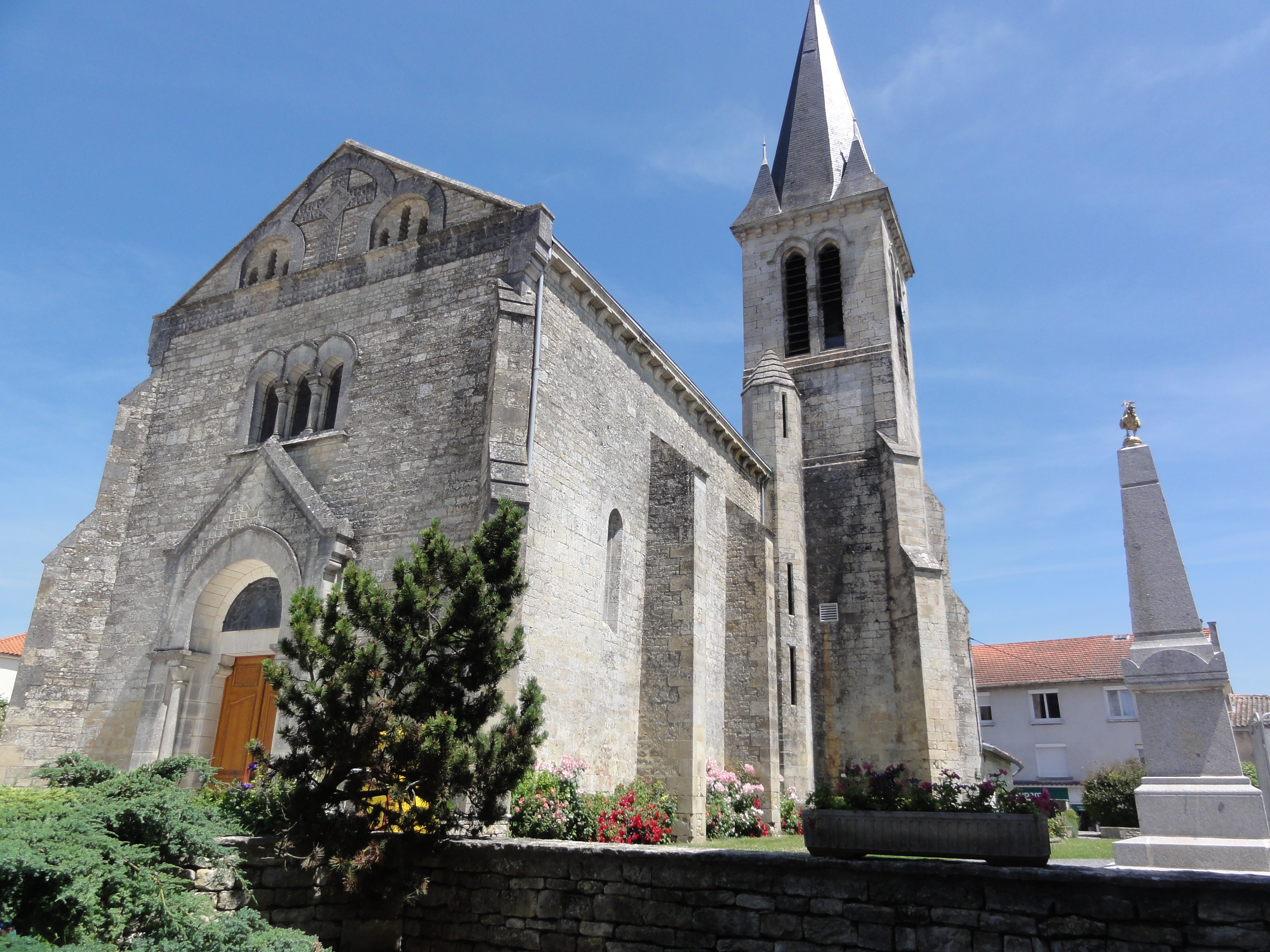 Brioux-sur-Boutonne (Deux-Sèvres) église, extérieur